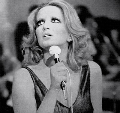 Mina's performance during the first episode of RAI's Teatro 10 television series broadcast from Rome on 11 March 1972